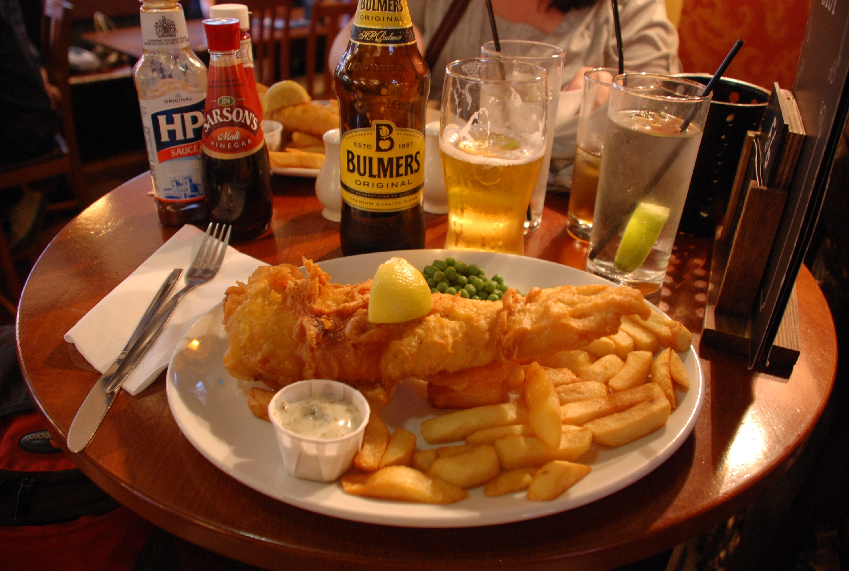 Fish and chips, Edinburgh, Scotland, Sept. 2011